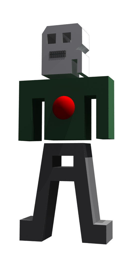 Logo of RMA, CUET